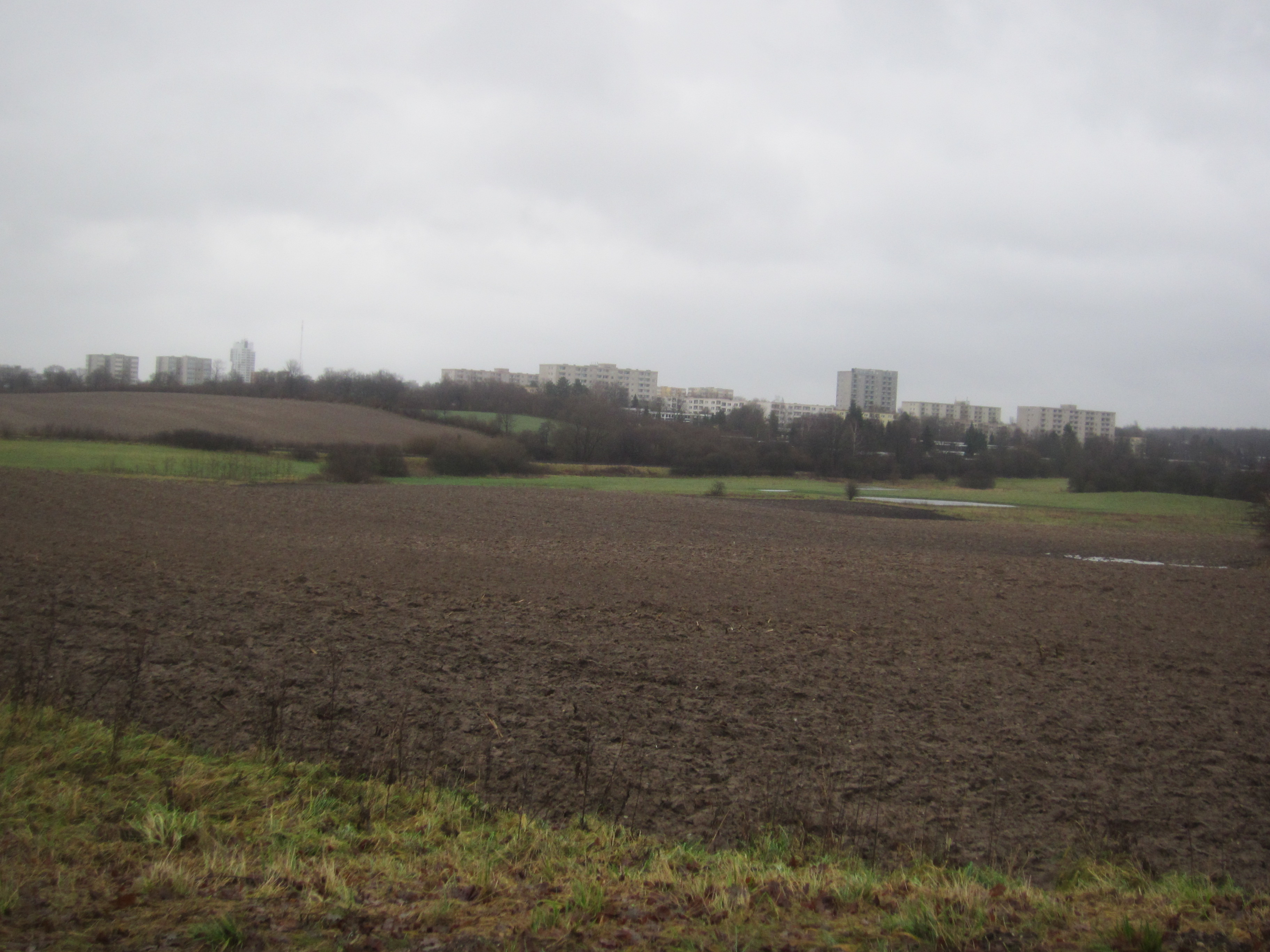 Panorama of Kiel-Mettenhof